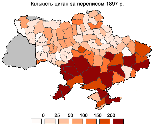 Roma people in Ukraine, 1897 census